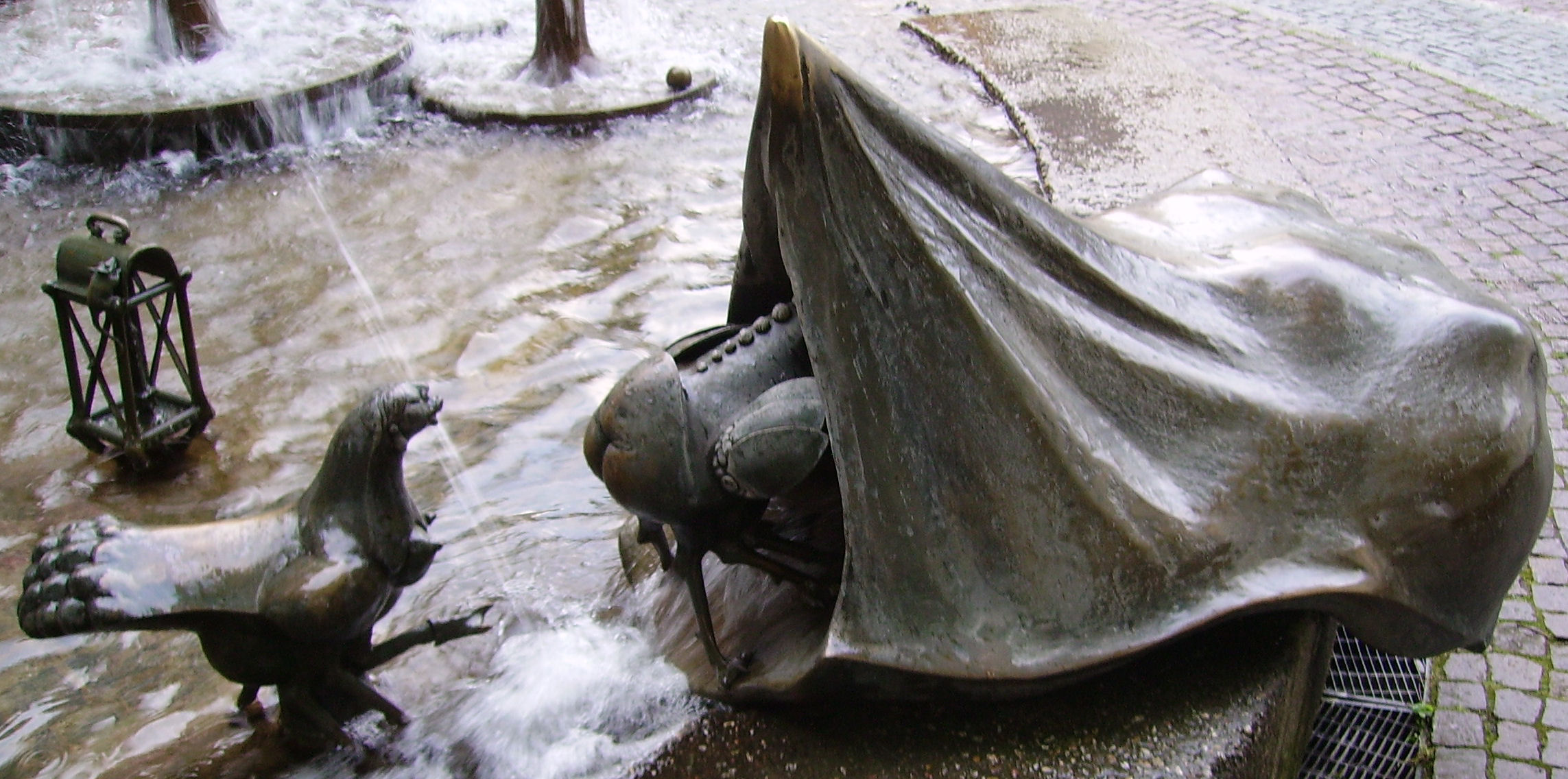 fountain in Neustadt an der Weinstraße, Germany